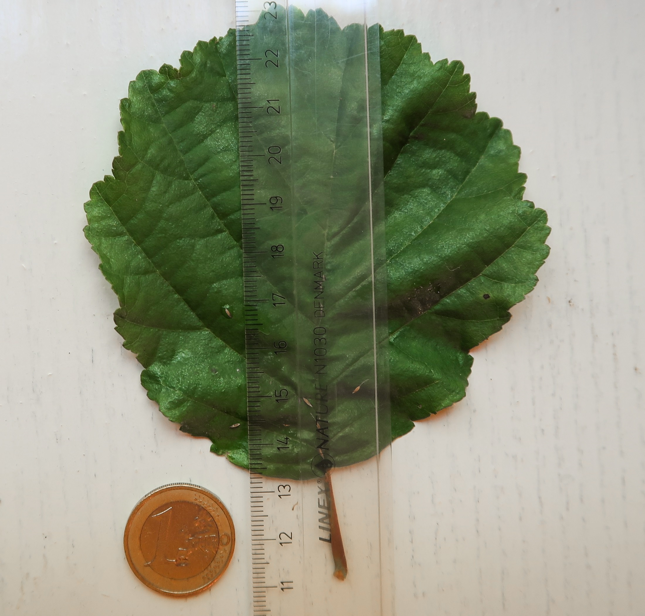 Leaf of Alnus glutinosa, with ruler and 1€ coin for leaf area measurement. If special apparatus for leaf area measurements is not available, the leaf is scanned or photographed together with “standard(s)” – some object(s) with known metric dimensions. Thereafter, the areas in pixels are measured by some image processing program (such as ImageJ), and pixels to square centimetres conversion coefficient is calculated using the known metric and measured pixel-sizes of the “standards”.